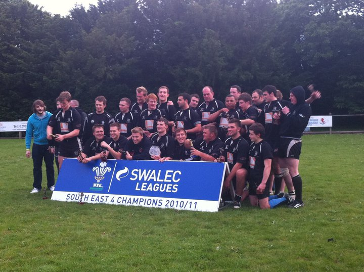 Rhiwbina RFC Celebrate winning the Welsh League 4 South East Title